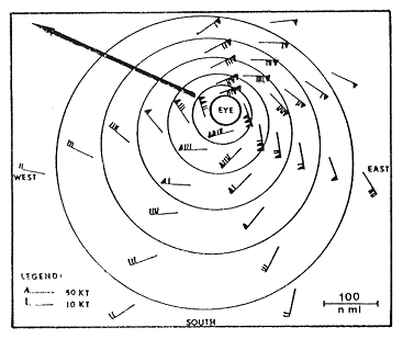 Distribution of surface wind speeds (in knots) around a large, intense typhoon in the Northern Hemisphere over open water. The arrow indicates direction of movement (after Harding and Kotsch, 1965).